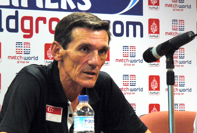 Radojko Avramović. I took this picture during the Singapore vs Lebanon international football match